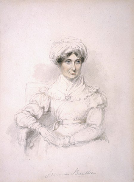 Joanna Baillie (1762 - 1851), playwright